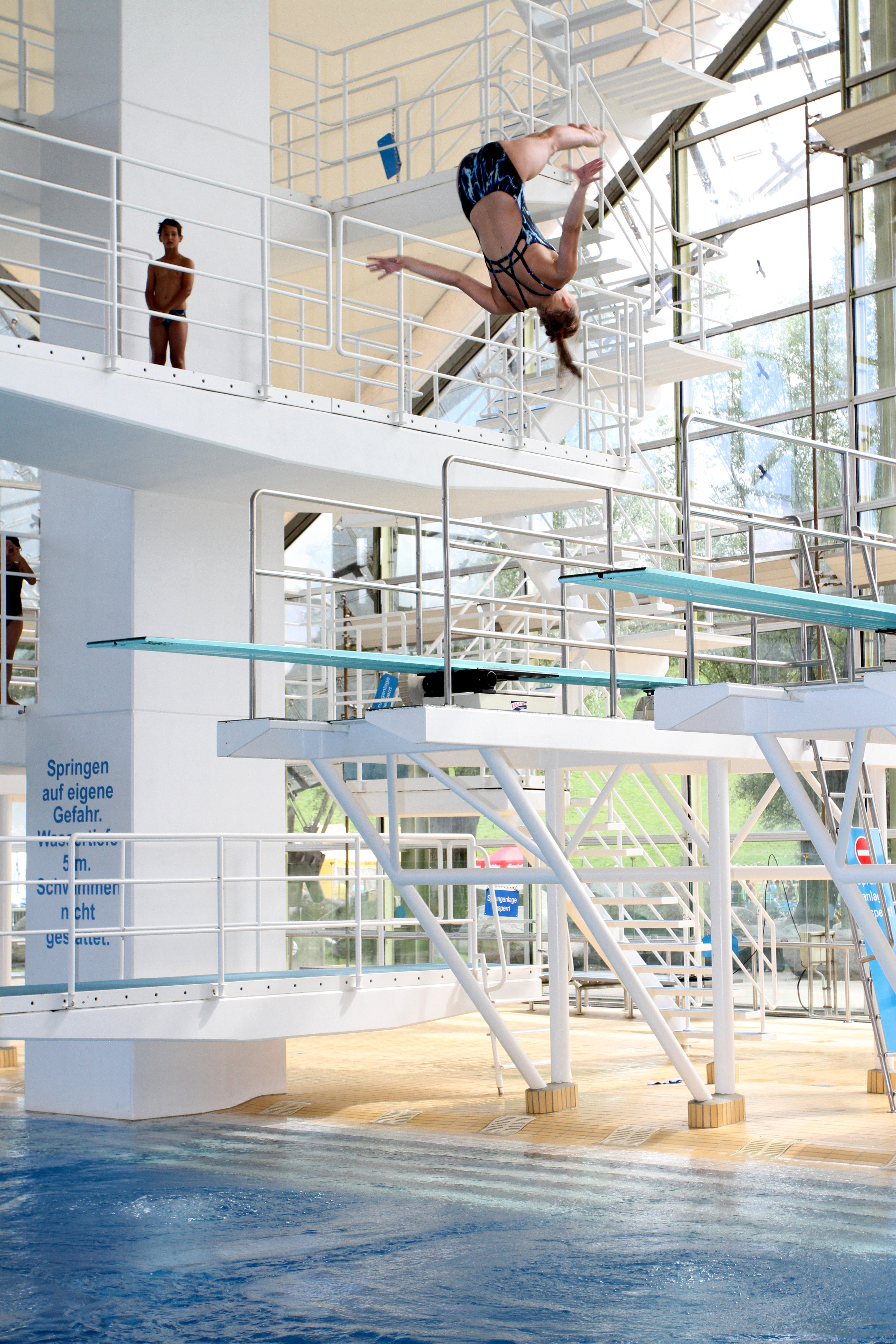 Olympic Swimm Hall Munich, High Diving presentation by members of the SV Stadtwerke München High Diving Team